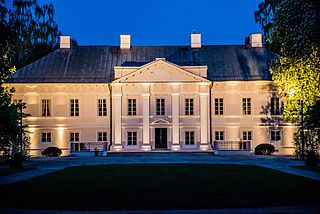 Garden side of the Palace in the night